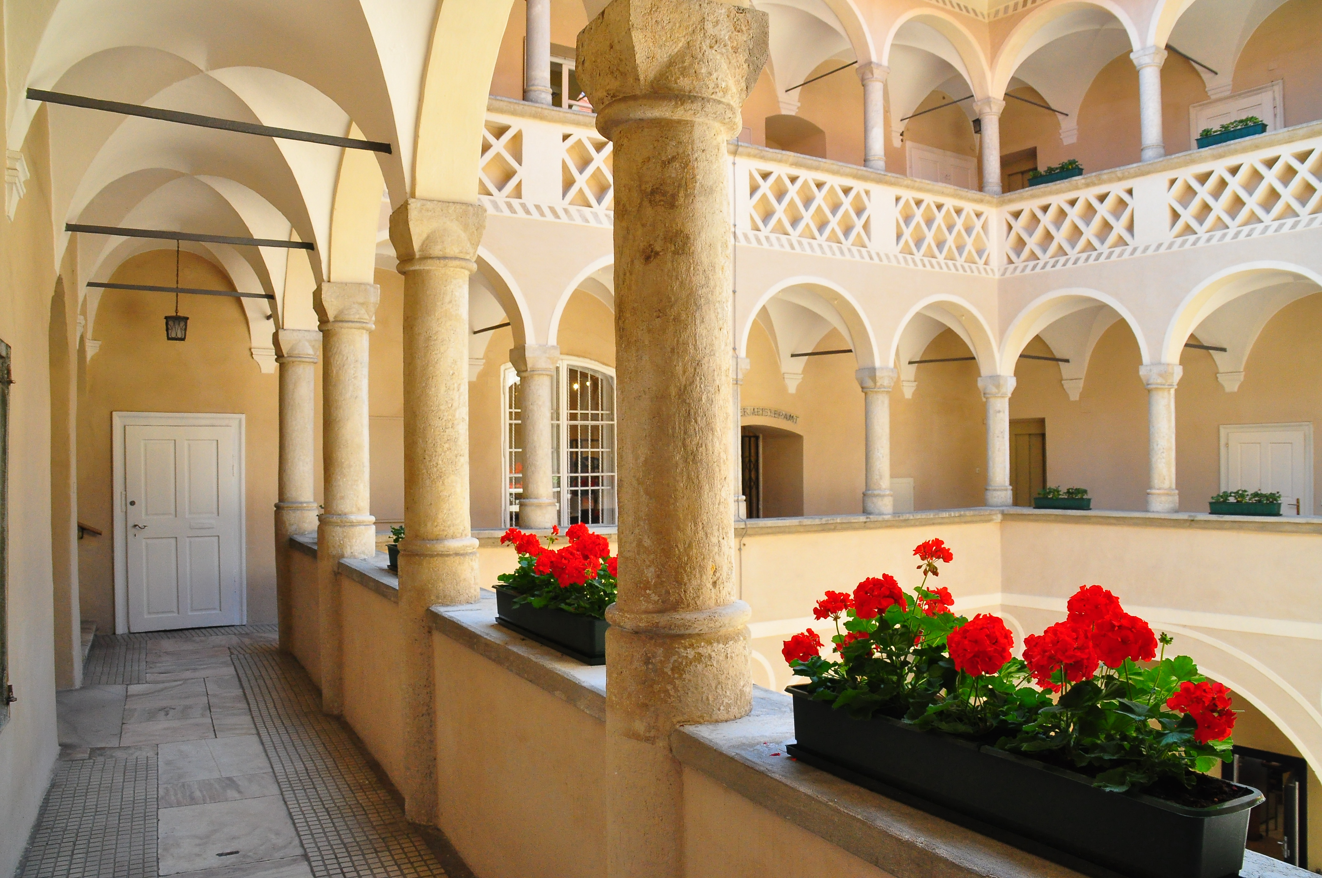 Arcade yard of the old guildhall on the Alter Platz #1, “Inner City” of the Carinthian capital Klagenfurt, Carinthia, Austria